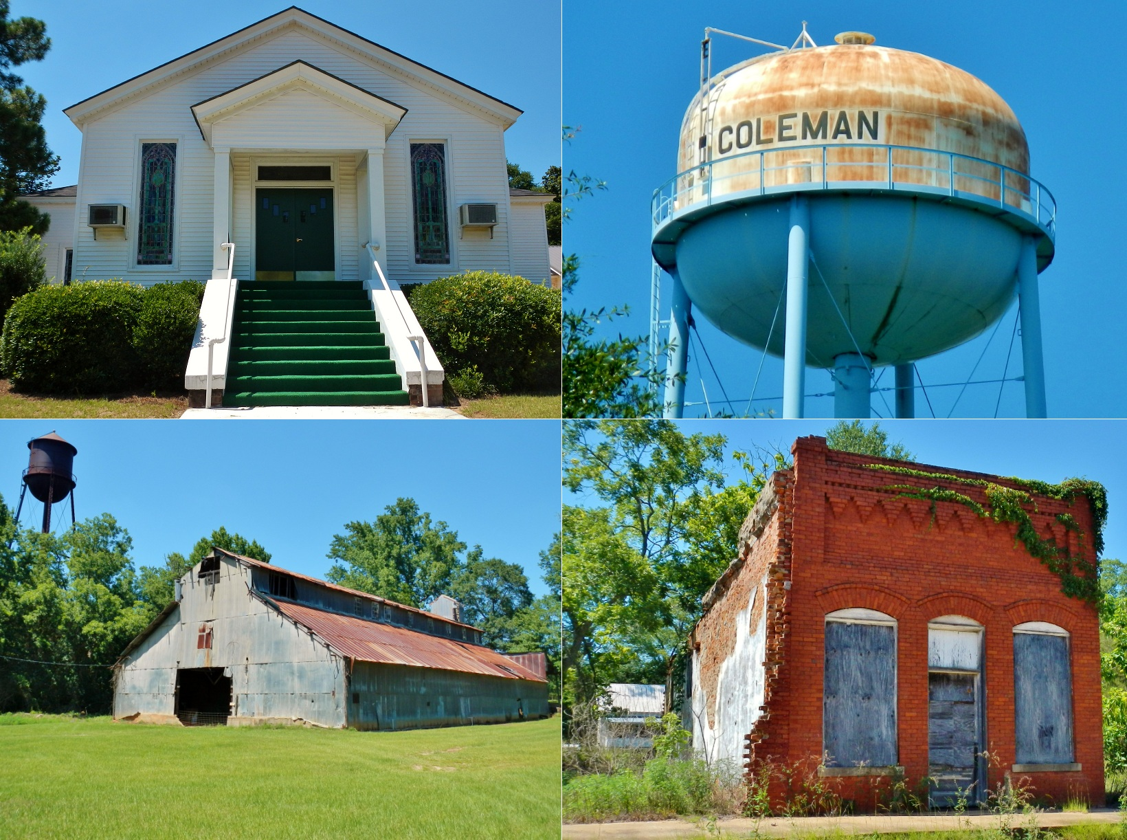 This is a photo collage of Coleman, GA.